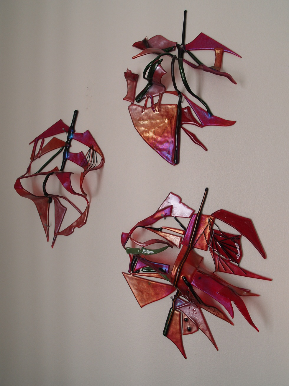 Glas work by Marie Hektor